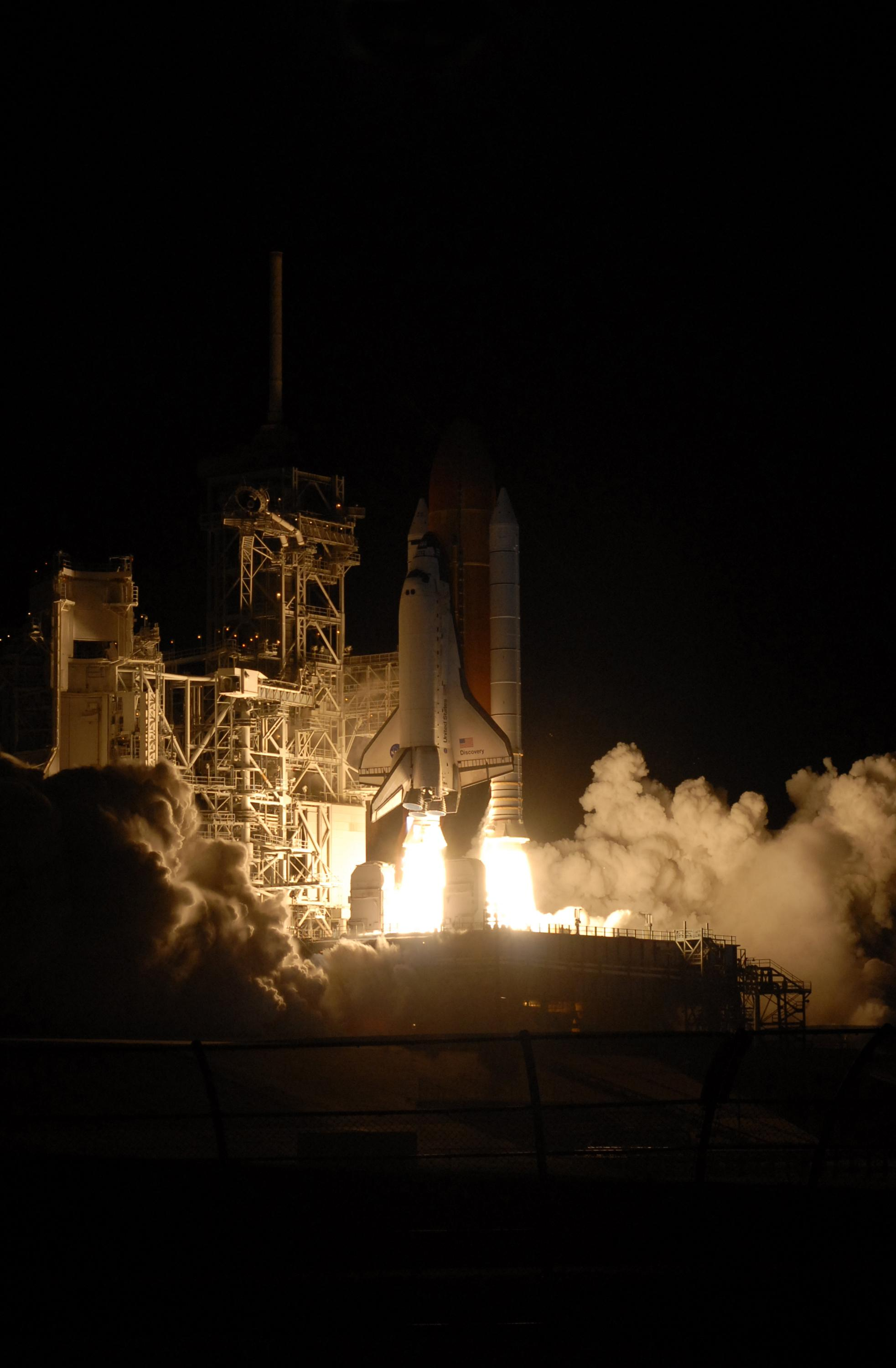 PHOTO NO: KSC-06PD-2750 KENNEDY SPACE CENTER, FLA. -- Space Shuttle Discovery seems to be standing on the fiery columns erupting from the solid rocket boosters as it lifts off Launch Pad 39B on mission STS-116. Liftoff occurred on time at 8:47 p.m. EST. This was the second launch attempt of Discovery on mission STS-116. The first launch attempt on Dec. 7 was postponed due a low cloud ceiling over Kennedy Space Center. This is Discovery's 33rd mission and the first night launch since 2003. The 20th shuttle mission to the International Space Station, STS-116 carries another truss segment, P5. It will serve as a spacer, mated to the P4 truss that was attached in September. After installing the P5, the crew will reconfigure and redistribute the power generated by two pairs of U.S. solar arrays. Landing is expected Dec. 21 at KSC. Photo credit: NASA/Sandra Joseph, Robert Murray, Chris Lynch